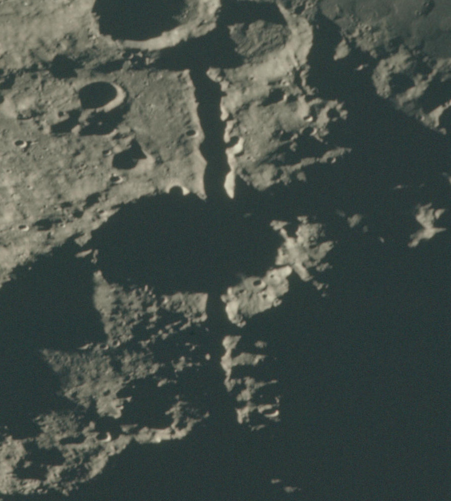 Vallis Schrodinger cutting through Sikorsky, while at the terminator, on the far side of the moon. North at top.